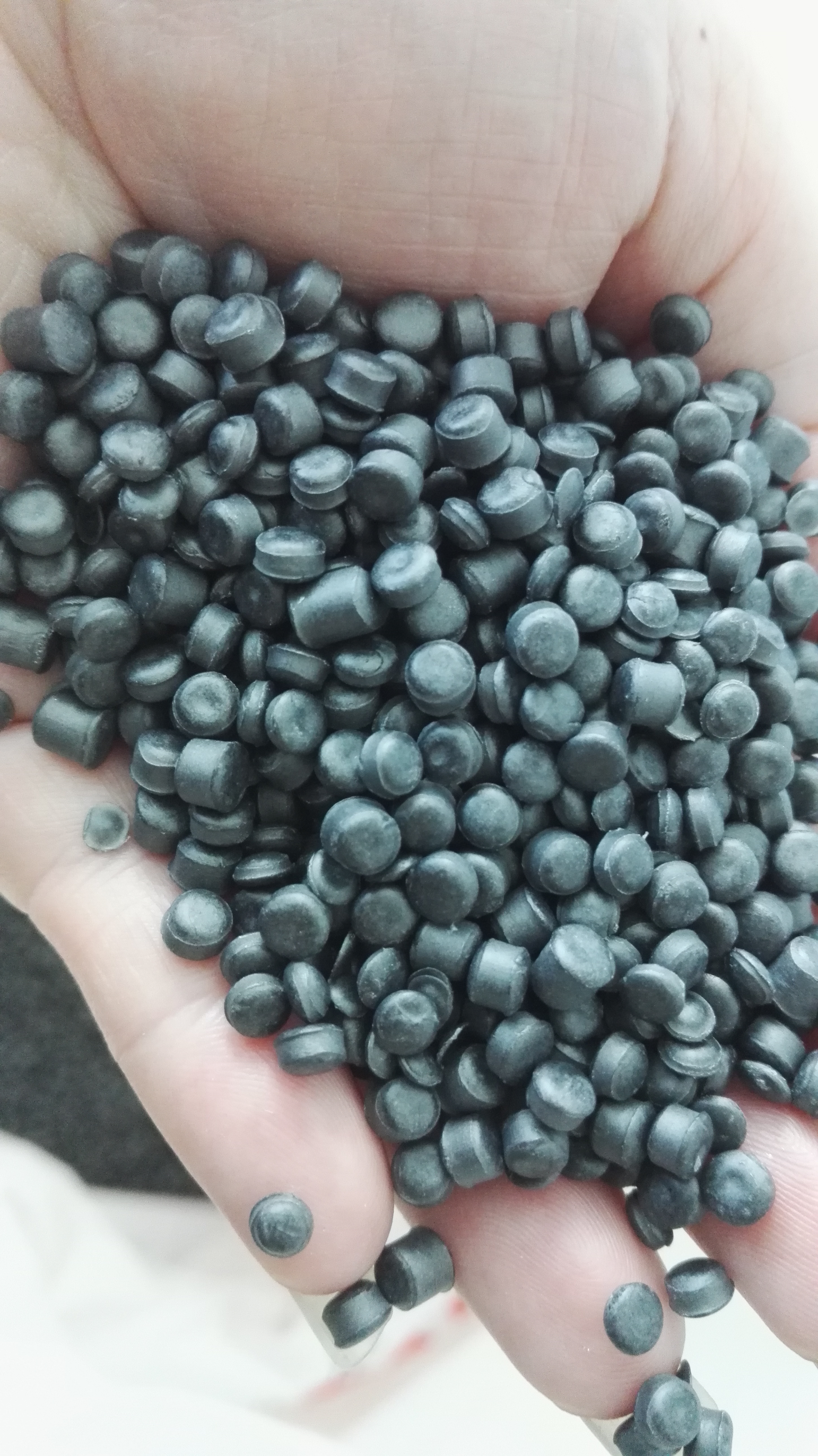 colored plastic granules for injection molding